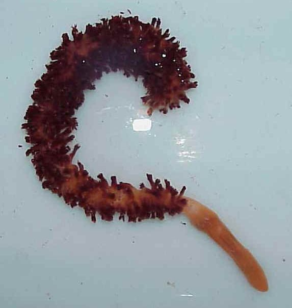 An unidentified species of sea pen with the bulbous peduncle in view.